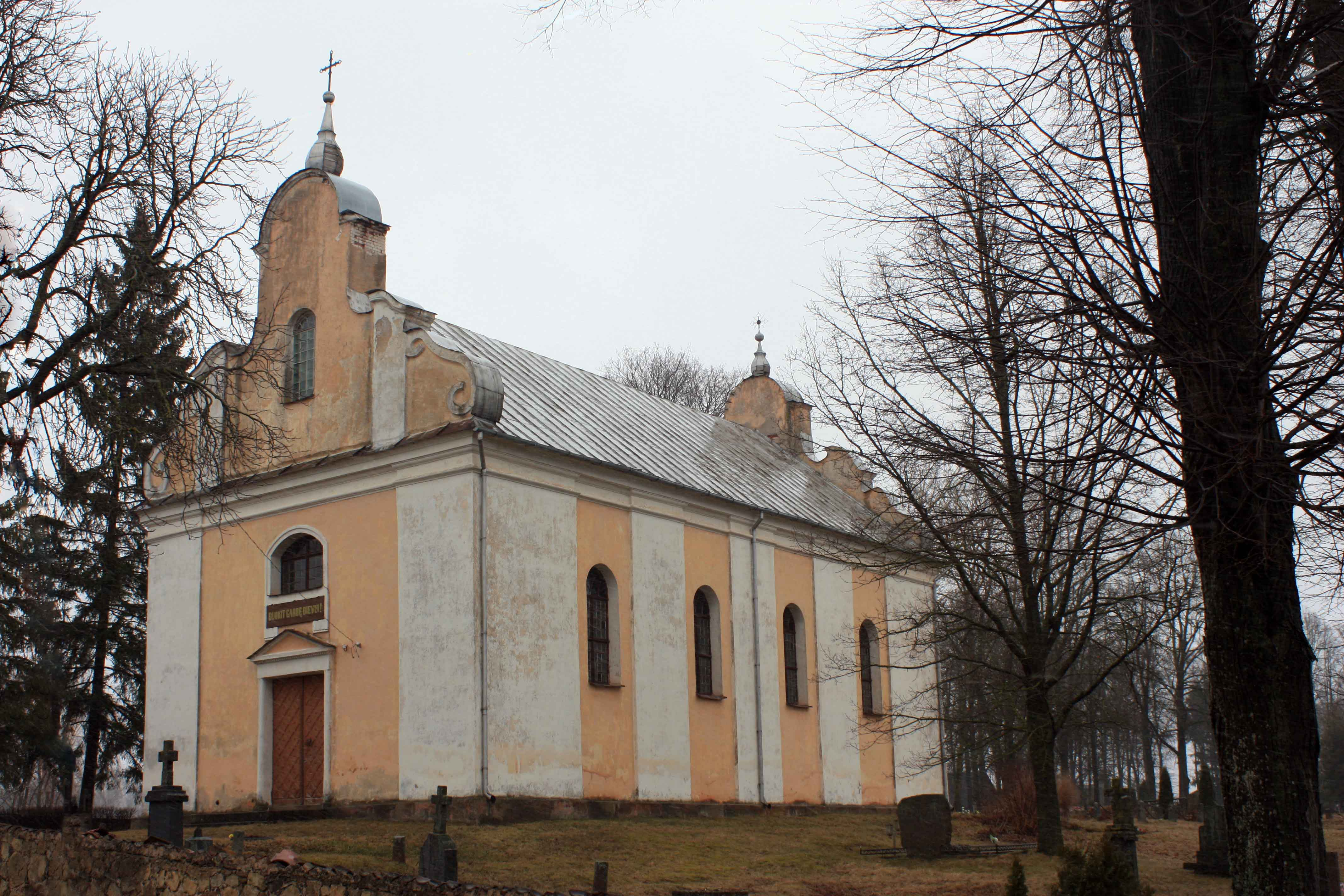 Svobiskis congregation, Lithuania.